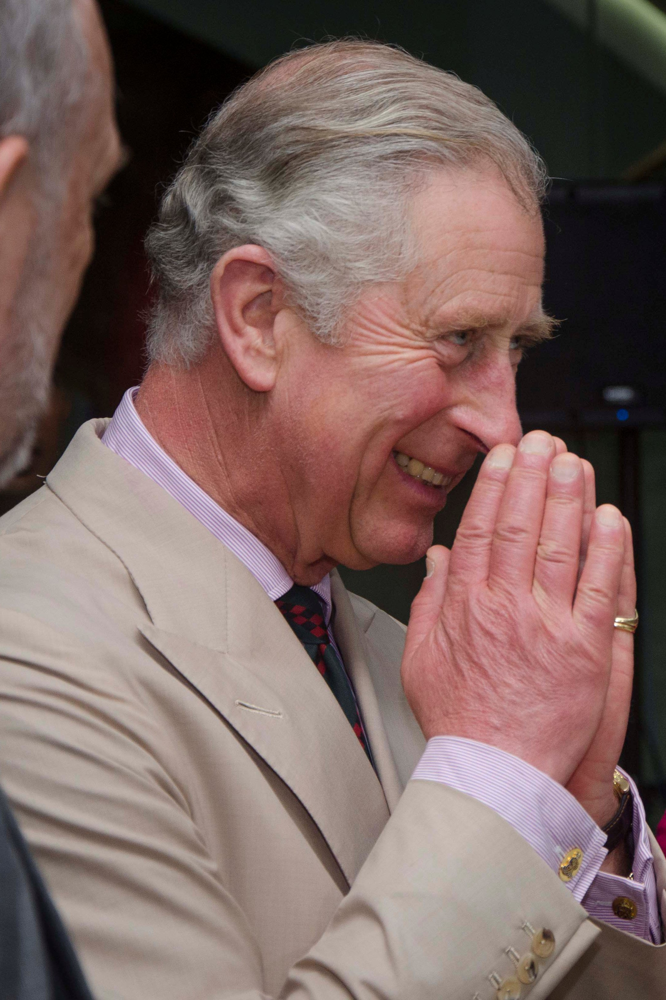 Prince Charles in Sri Lanka.